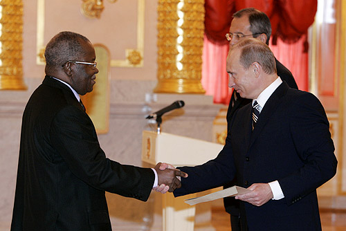 ST ALEXANDER HALL, GRAND KREMLIN PALACE. Ceremony for the presentation by foreign ambassadors of their letters of credentials. Ambassador of the Republic of Cote d\'Ivoire Gnango Philibert Fanidi presents his letter of credentials. In the background is Russian Foreign Minister Sergei Lavrov.